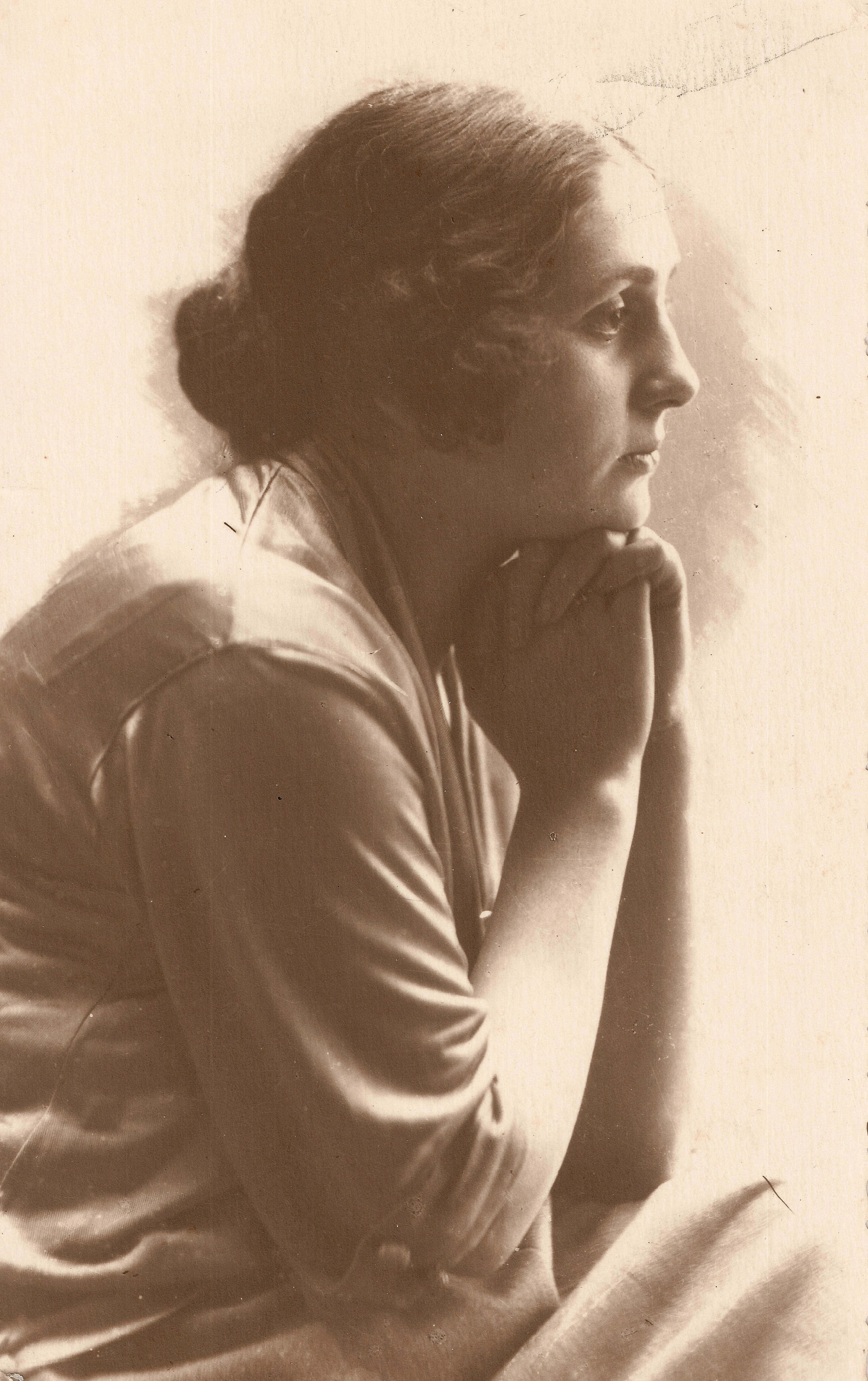 Sarie Lakoba. The victim of the Stalinist terror.